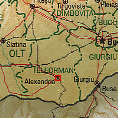 Map of Alexandria Municipality, Romania.